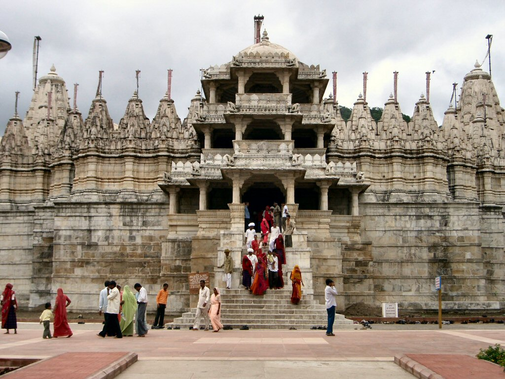 The temple at Ranakpur is one of the holiest Jain sites. This temple is known as the temple of a thousand columns - inside, there are a thousand columns and no two are decorated the same.